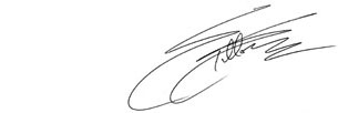 Signature Sylvester Stallone, Sly